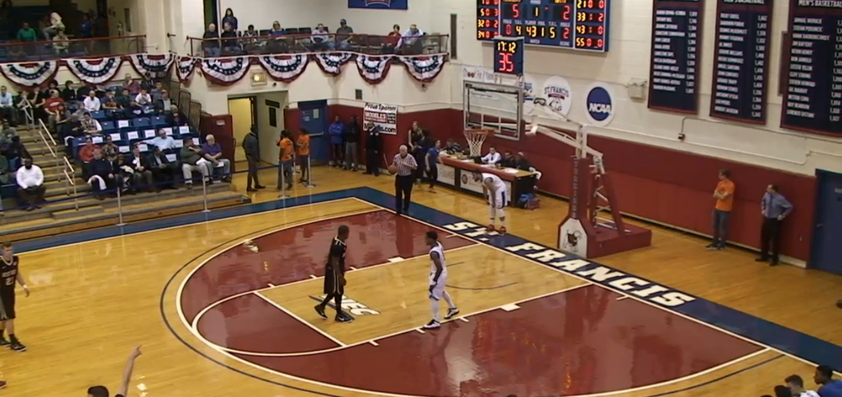 Image of Daniel Lynch Gym at The Pope on the St. Francis College campus. The Terriers were playing against Army.